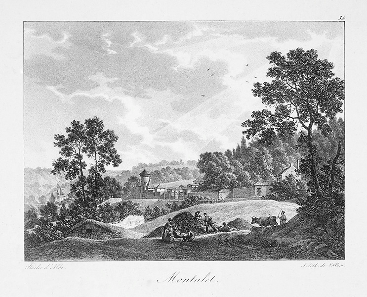 View of the Montalet (or Montalets or Montalais )